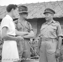 Kuching, Sarawak. 1945-09-11. After the surrender ceremony at Kuching, Brig T.C. Eastick, Commanding Kuching Force, 9 Aust Division, accompanied by Lt-Col A. T. Walsh, CO 2/10 Field Regiment, 8 Aust Division (a Prisoner of War) and Col T. Suga, Commandant of all Prisoner of War Camps in Borneo, visited the Prisoner of War and Internee Camp of Kuching, where a parade was held at which the Prisoners of War were informed of their liberation. Shown, Mrs Agnes Newton-Keith (1), author of the novel Land Below the Kind [sic - Wind] speaking with Maj T. T. Johnson, 2/6 Field Park Company (2) and Brig Eastwick [sic] (3). Note: Mrs Keith later wrote a book on her period of captivity called Three Came Home.""